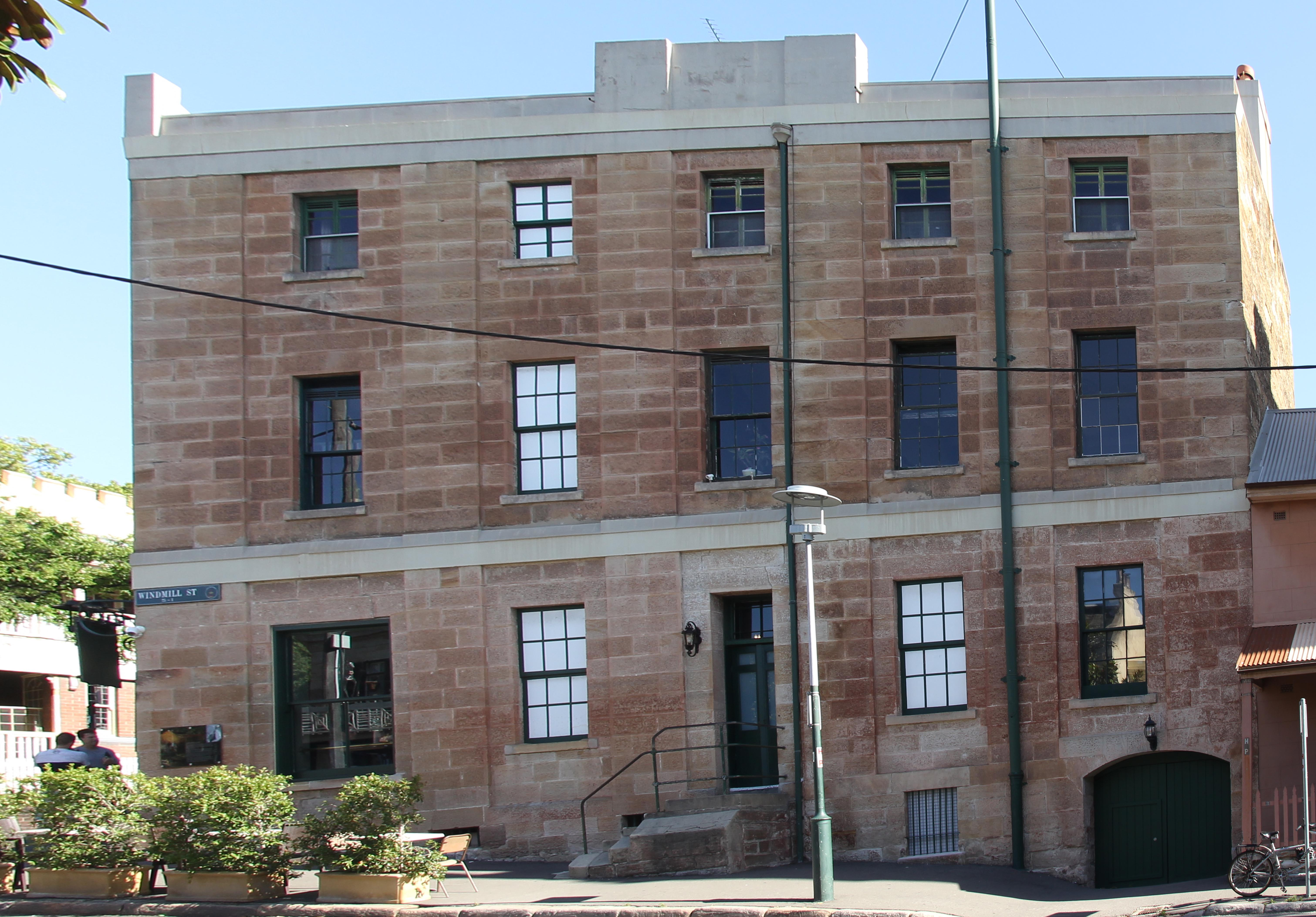 1-63 Windmill Street, Millers Point in the City of Sydney, New South Wales, Australia